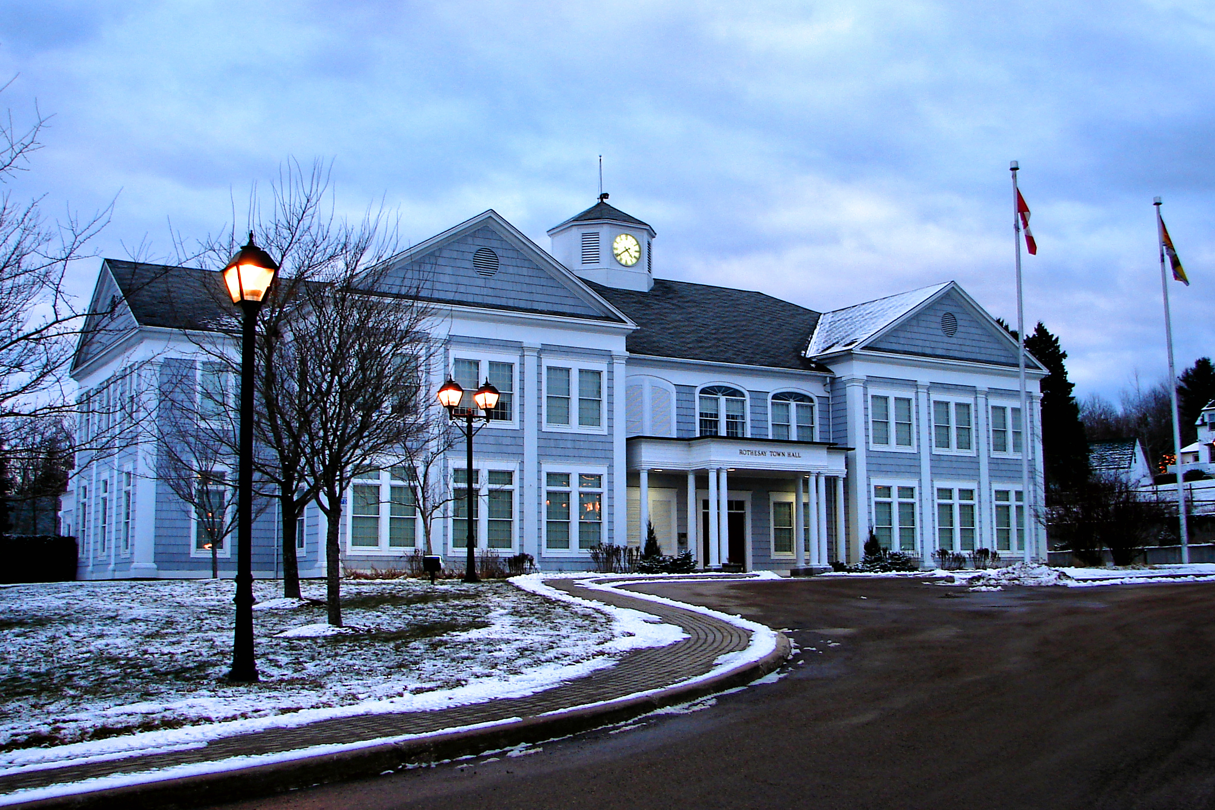 Rothesay Town Hall, New Brunswick, Canada